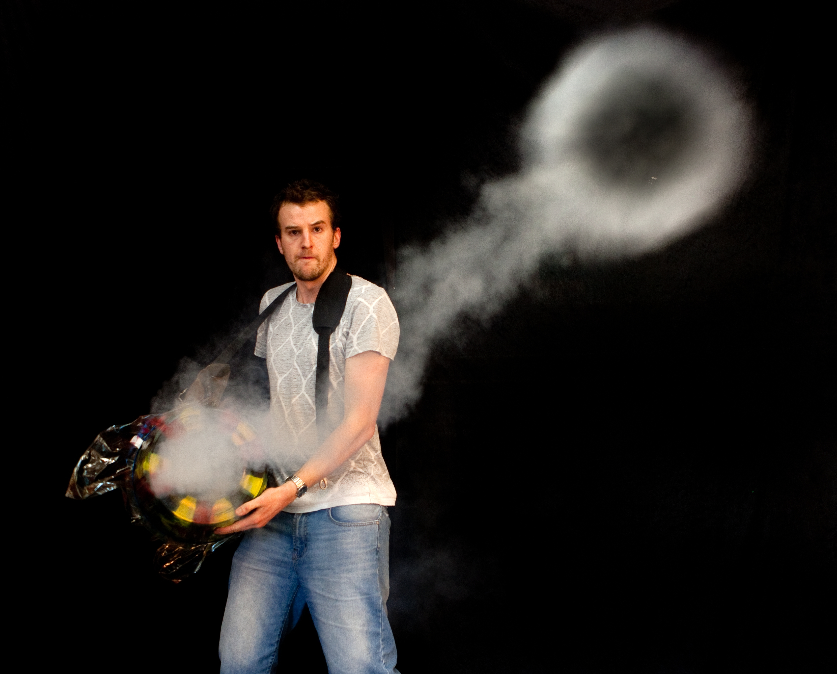 A smoke ring being produced by a modified, smoke-filled garbage bin